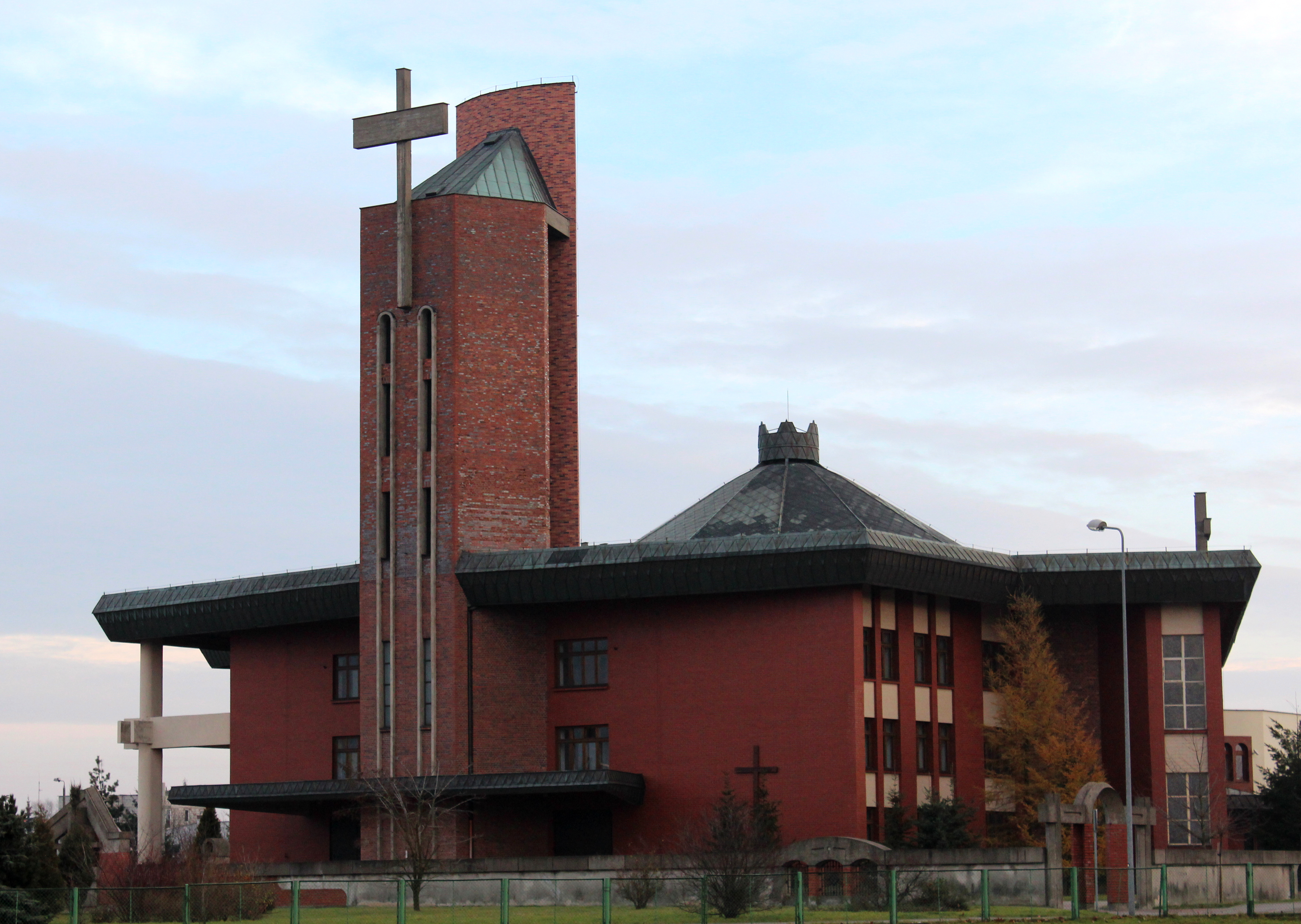 Our Lady Queen of Poland church in Chojnice.